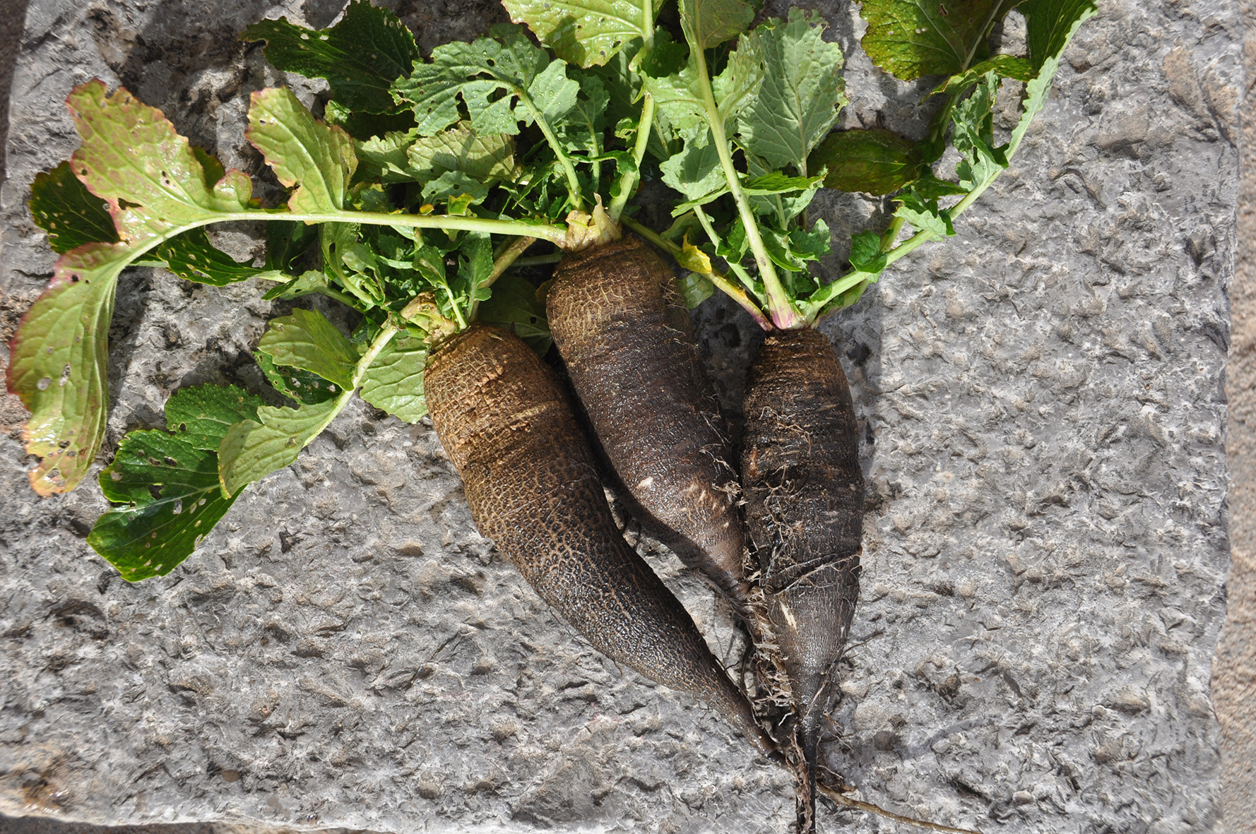 Piràmide d'aliments de l'Empordà